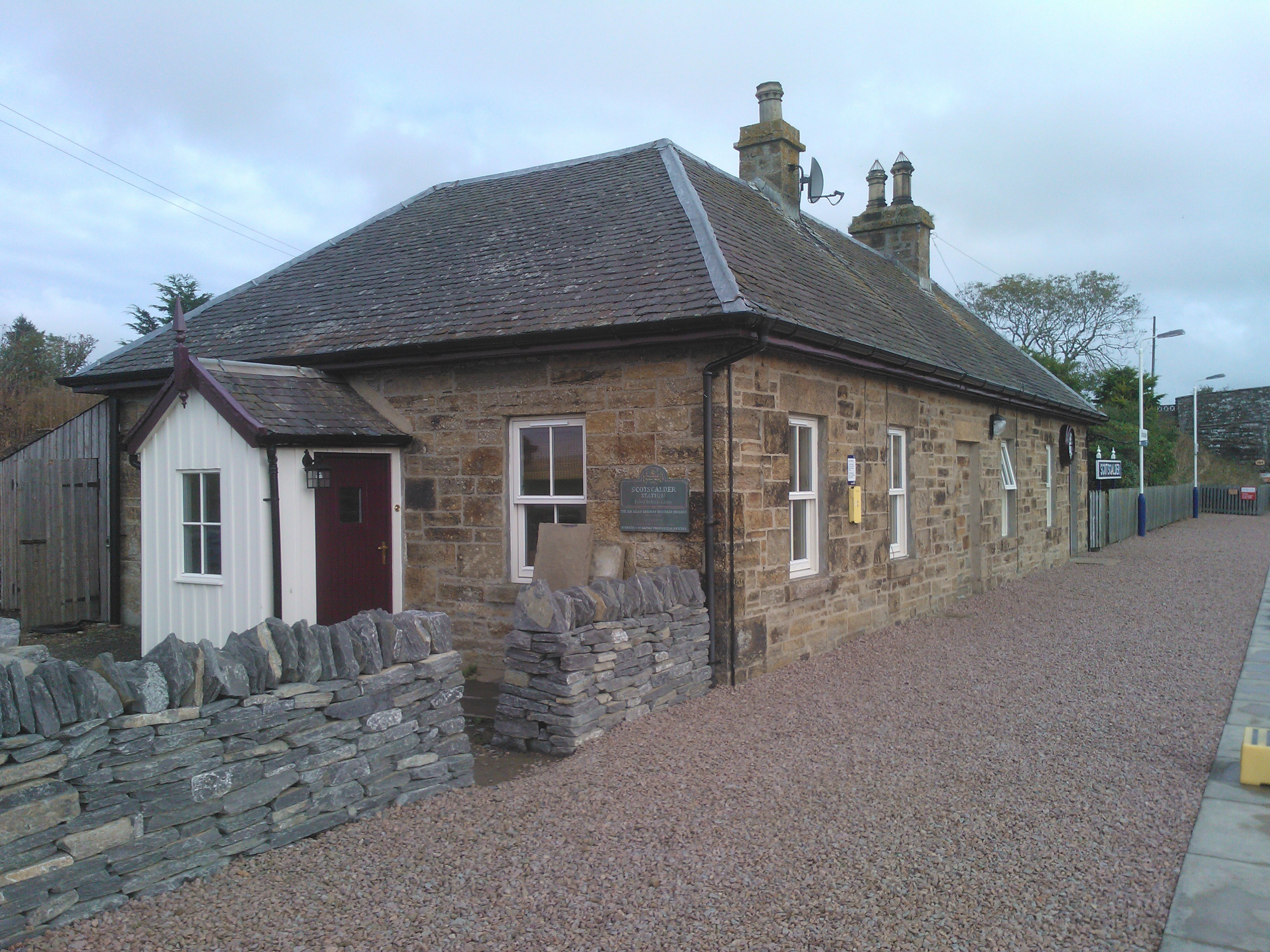 Scotscalder Station 2013